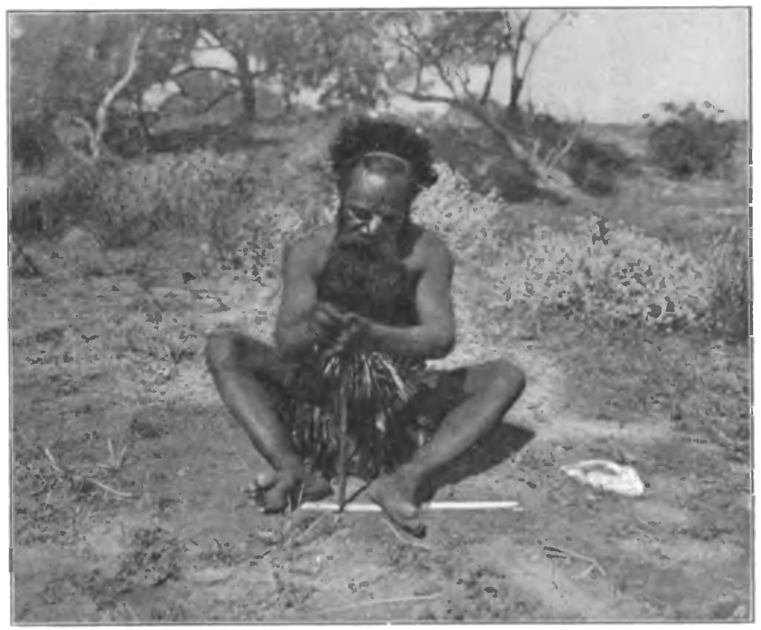 Urabunna man making fire